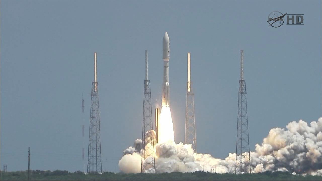 Launch of Juno on an Atlas V.